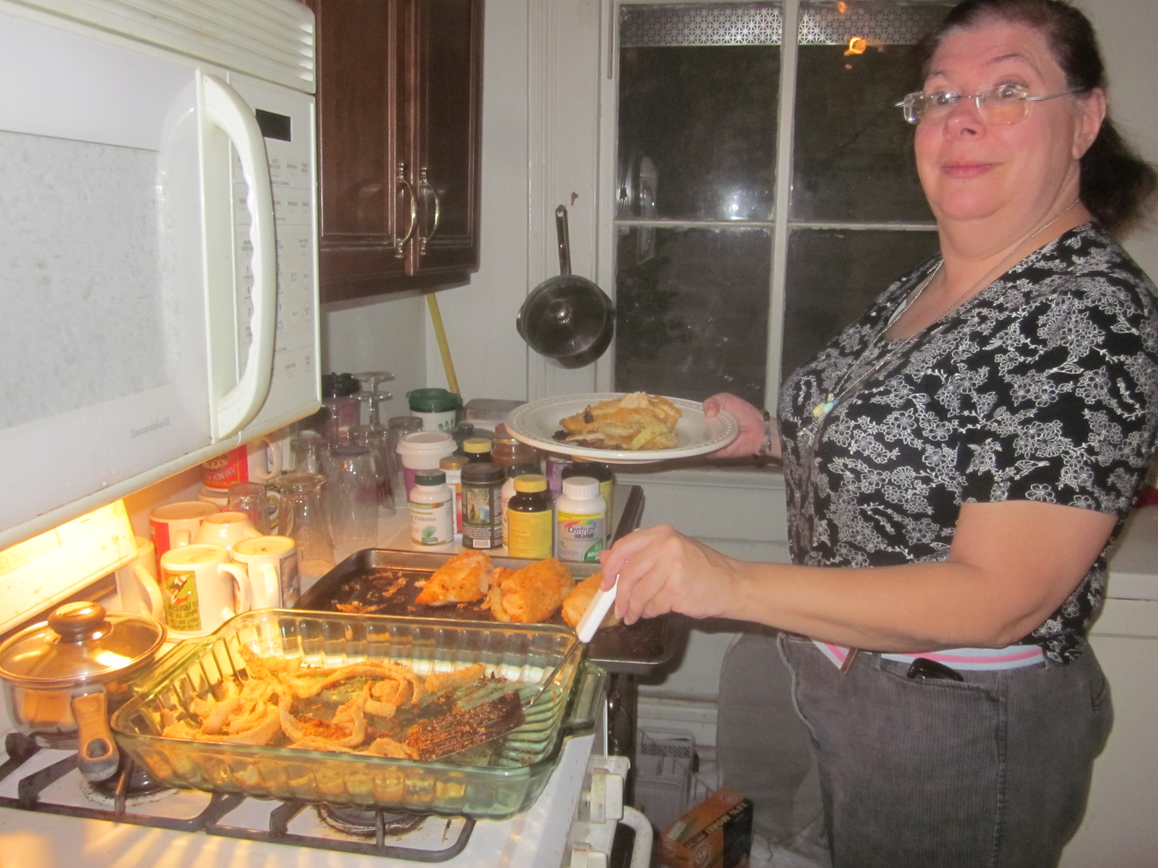 Hollie made "fried chicken" and onion rings that were baked rather than fried. Good. Personality rights warningAlthough this work is freely licensed or in the public domain, the person(s) shown may have rights that legally restrict certain re-uses unless those depicted consent to such uses. In these cases, a model release or other evidence of consent could protect you from infringement claims.